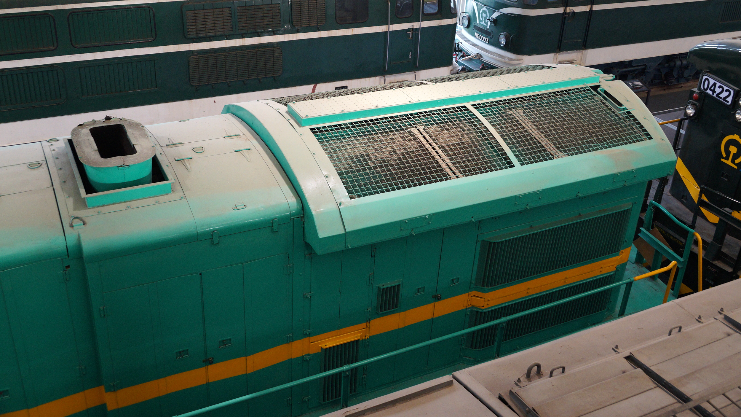 The radiators of China Railways ND5-0049 diesel locomotive